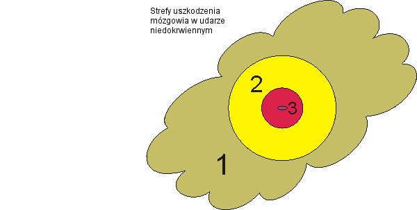 Areas of brain failure after stroke.